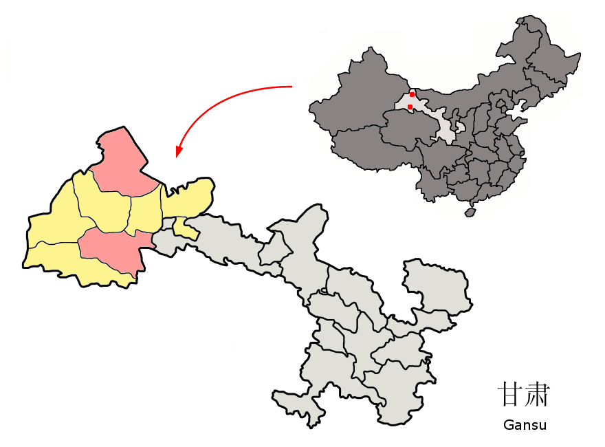 Location of Subei County (pink) within Jiuquan Prefecture (yellow) and Gansu province of China Map drawn in september 2007 using various sources, mainly : Gansu province administrative regions GIS data: 1:1M, County level, 1990 Gansu Counties map from Jiuquan Prefecture map from .cn